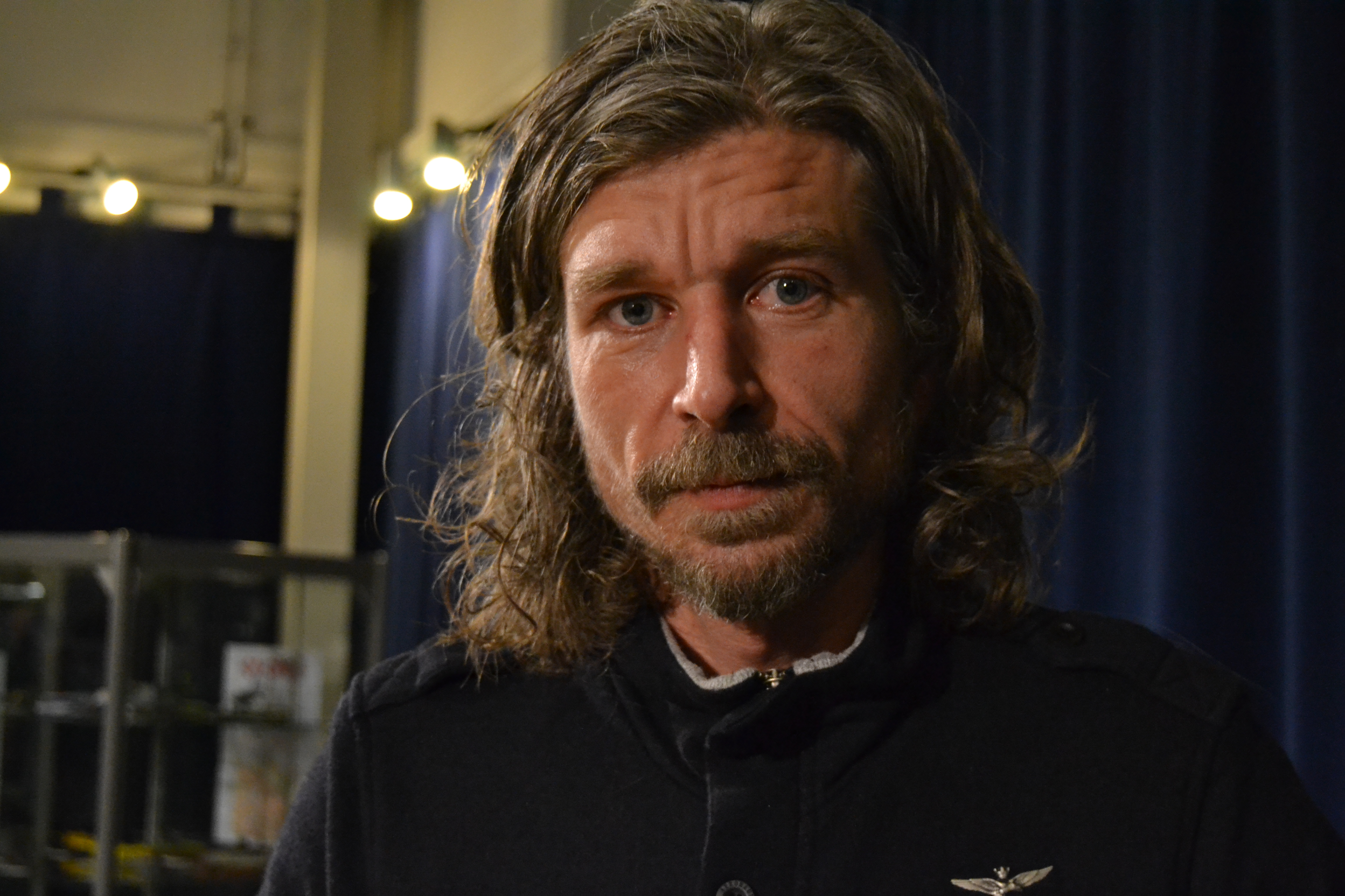 Norwegian author Karl Ove Knausgård at the city library i Lund, Sweden. Photo may be used freely if attributed to photographer Robin Linderborg.